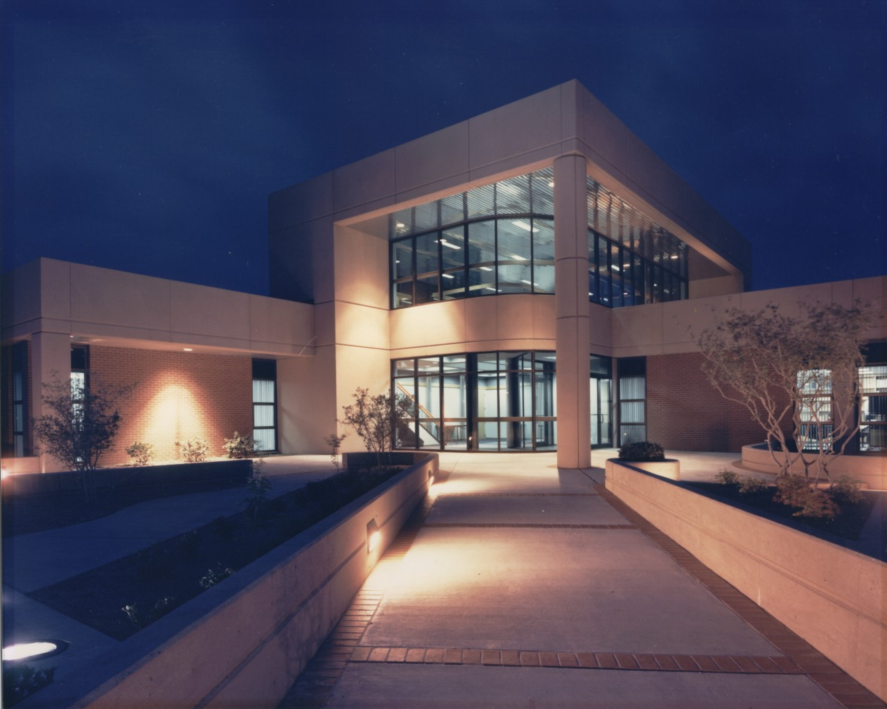 View of the National Weather Center at night.